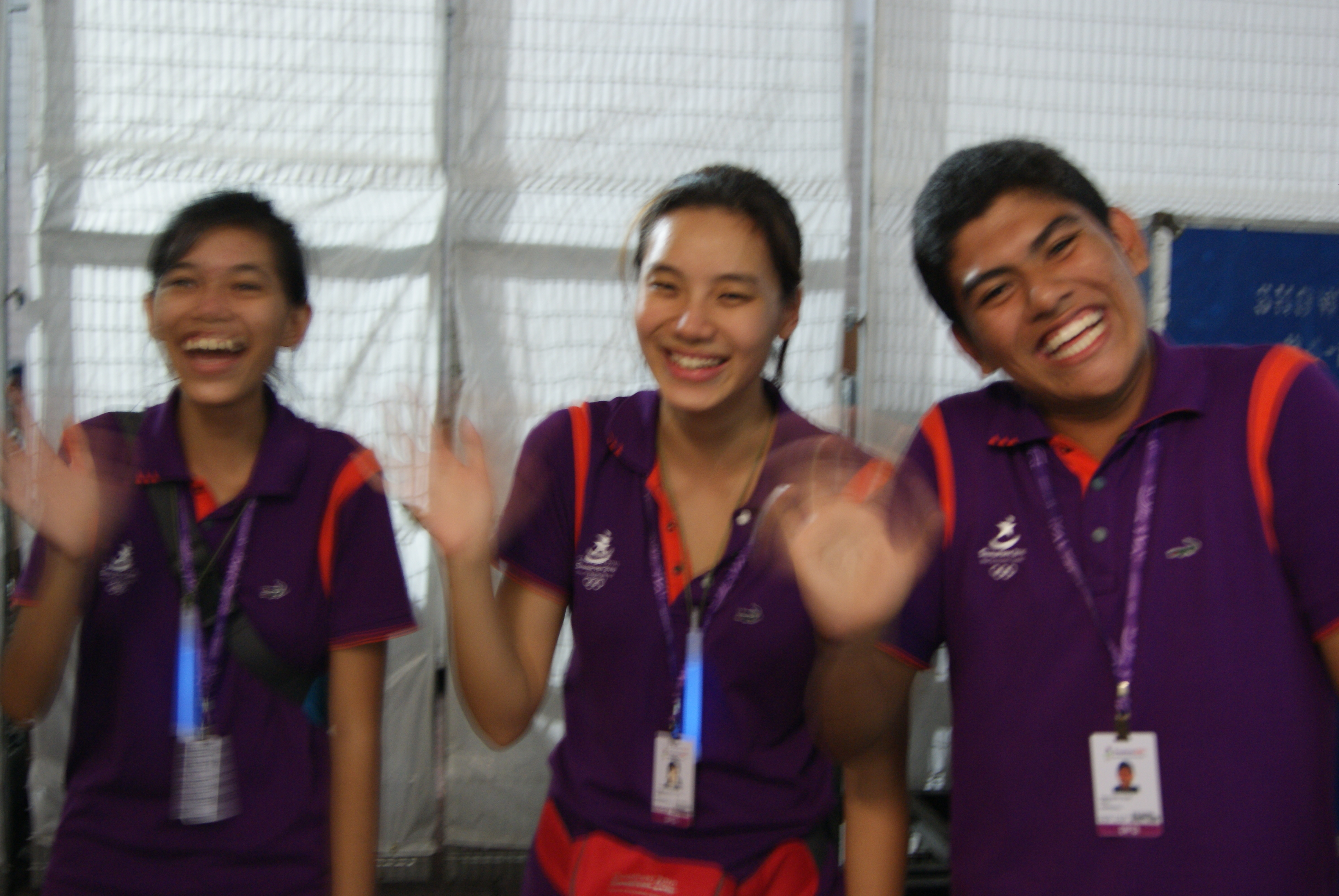 Cheerful volunteers waving goodbye to audience members attending the 2010 Summer Youth Olympics opening ceremony at The Float@Marina Bay, Singapore.